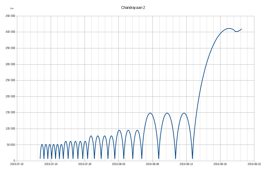 Distance of Chandrayaan-2 from the Earth